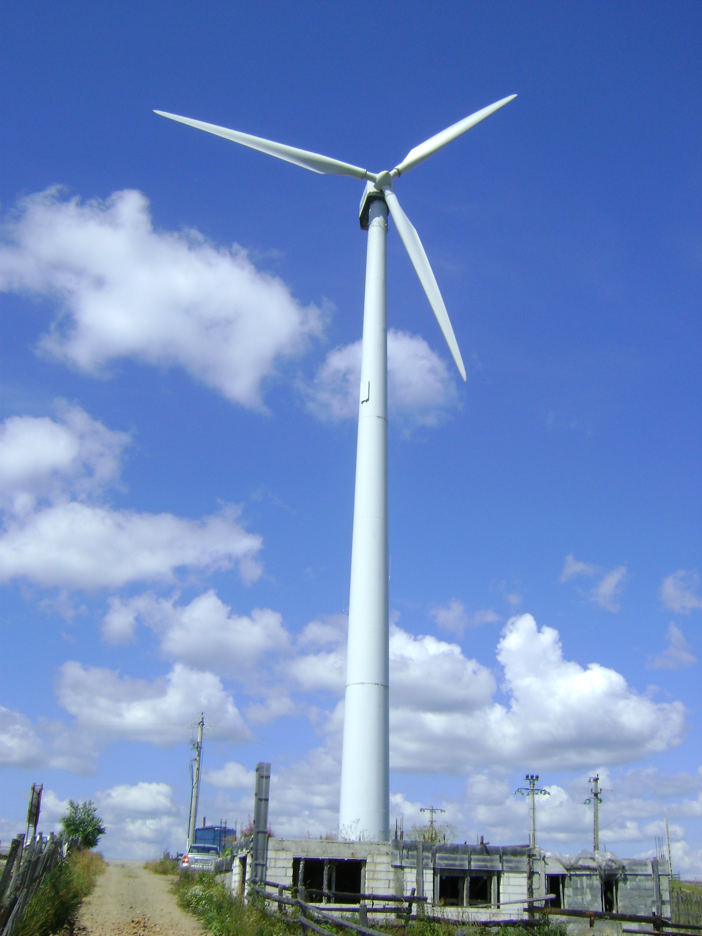 Tihuţa Pass wind turbine, Romania (Type: Fuhrländer 250; Tower height: 42 m; Rotor diameter: 29,5 m; Power: 250 KW)